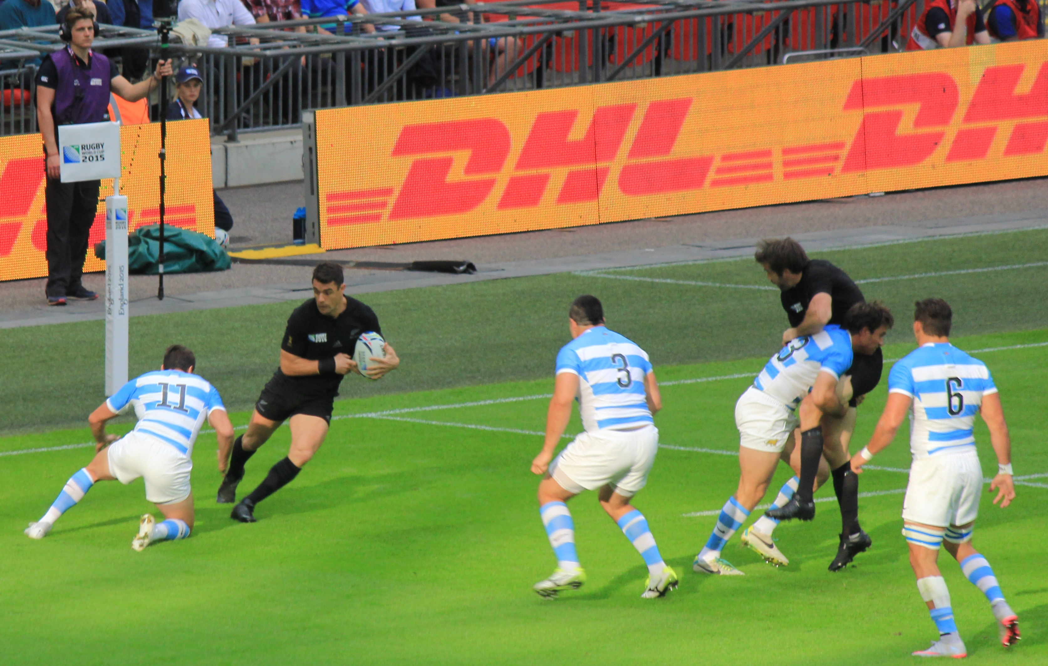 15-09 RWC New Zealand vs Argentina 025